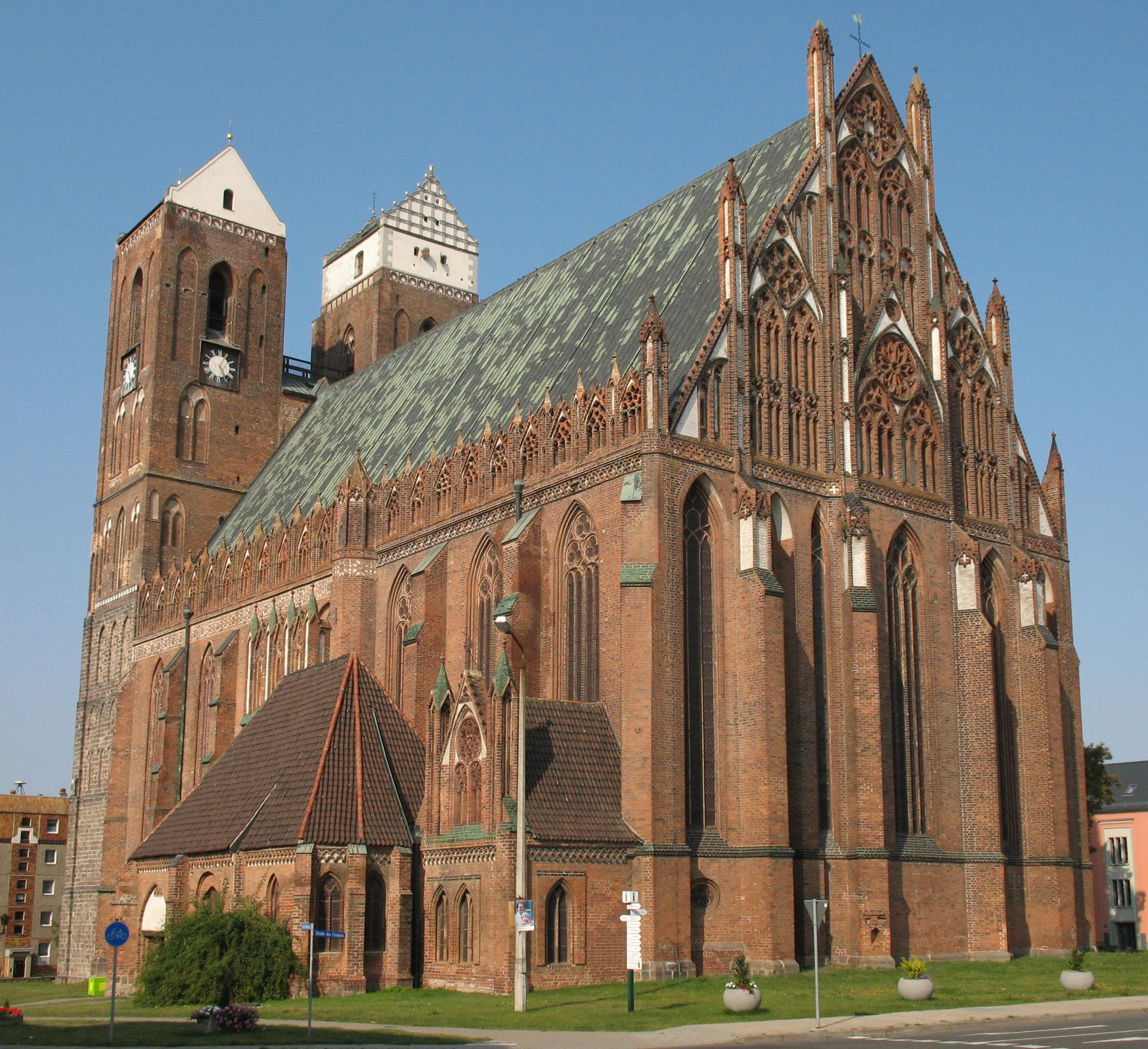 St. Mary's Church in Prenzlau in Brandenburg, Germany